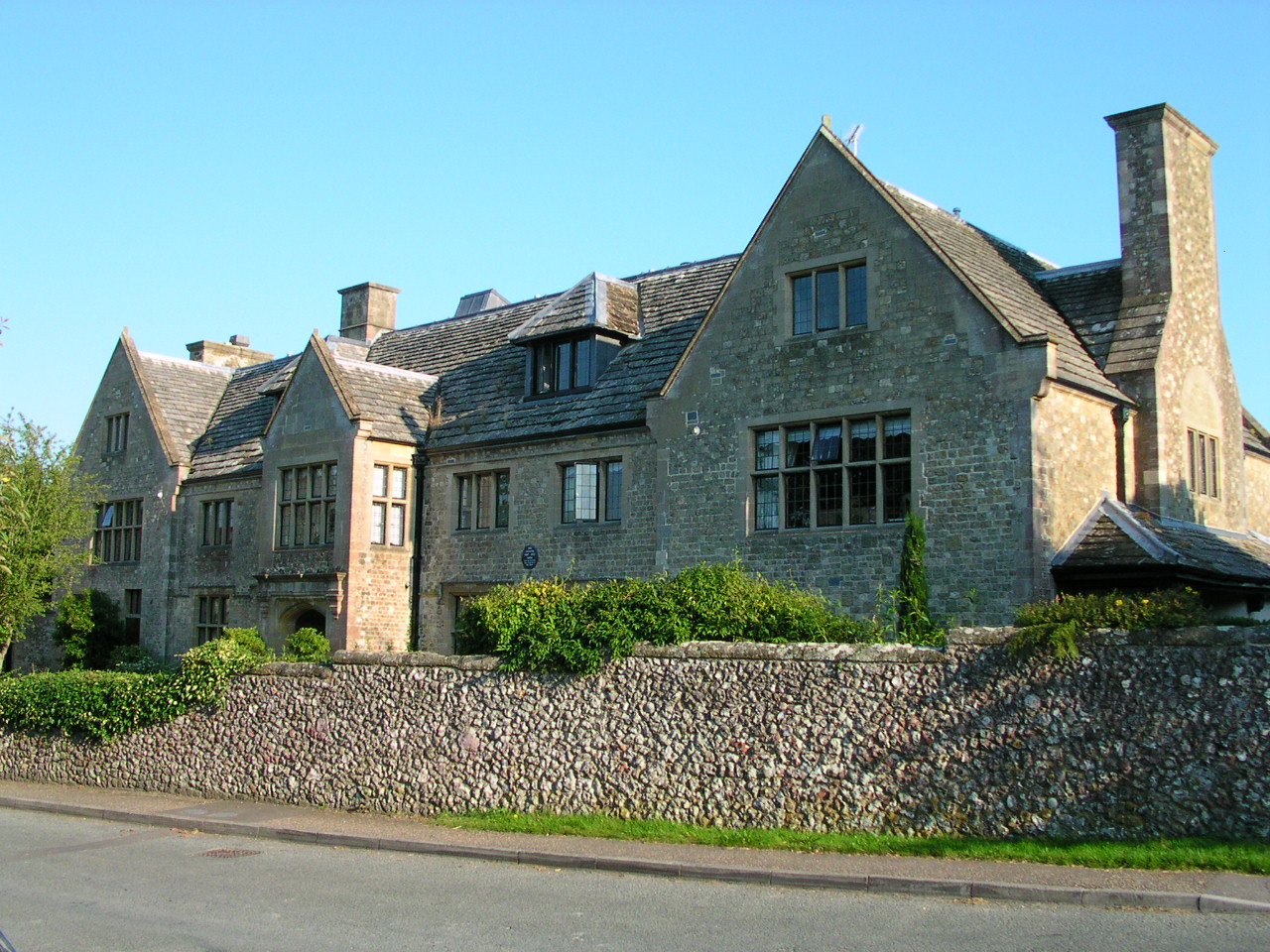 Bury House at Bury, West Sussex, England. Once the home of author John Galsworthy.